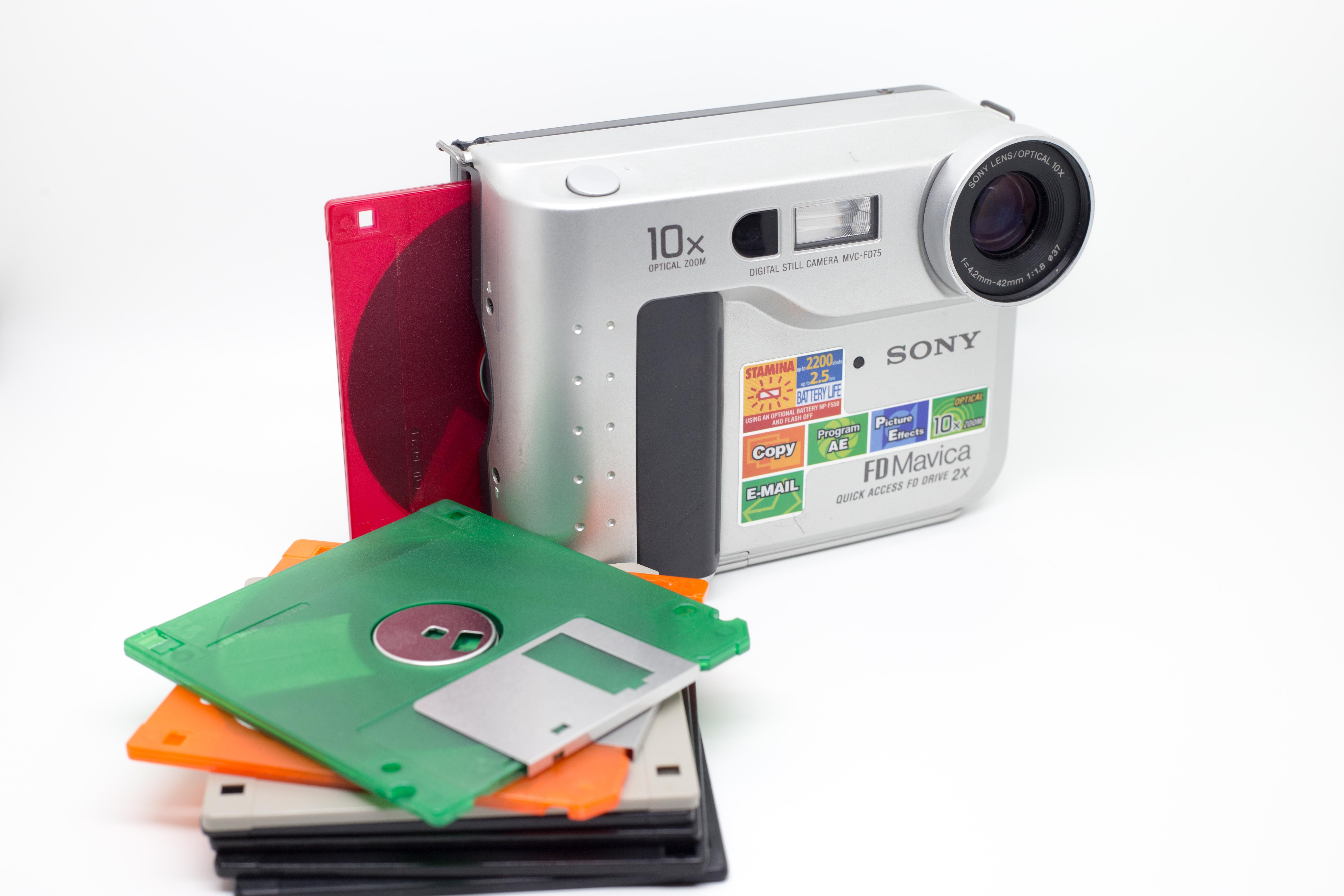 Sony Mavica, model MVC FD75 (2001) using floppy discs with 0.35 Megapixel resolution.